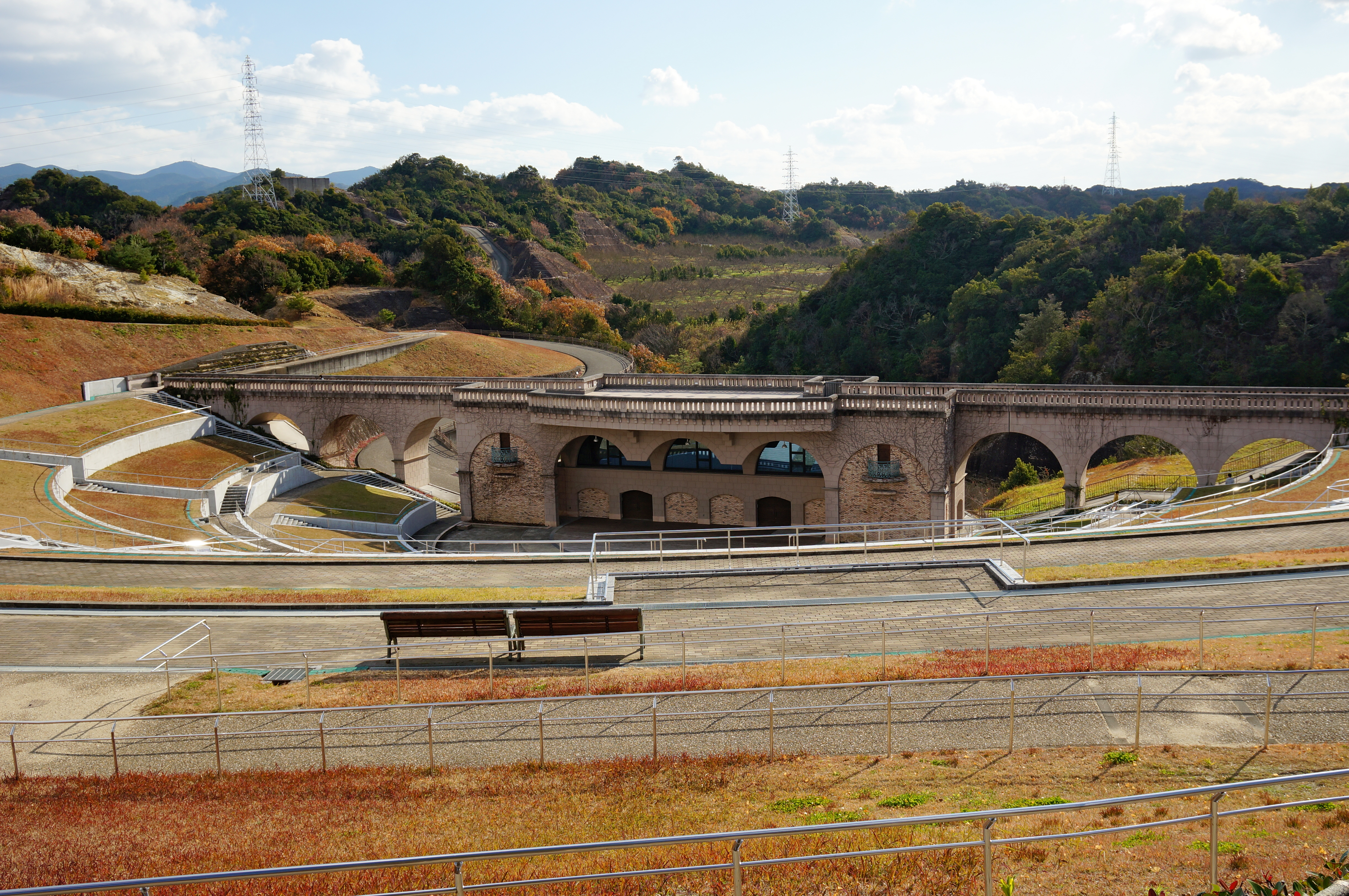 Shinjo Park in Tanabe, Wakayama prefecture, Japan.